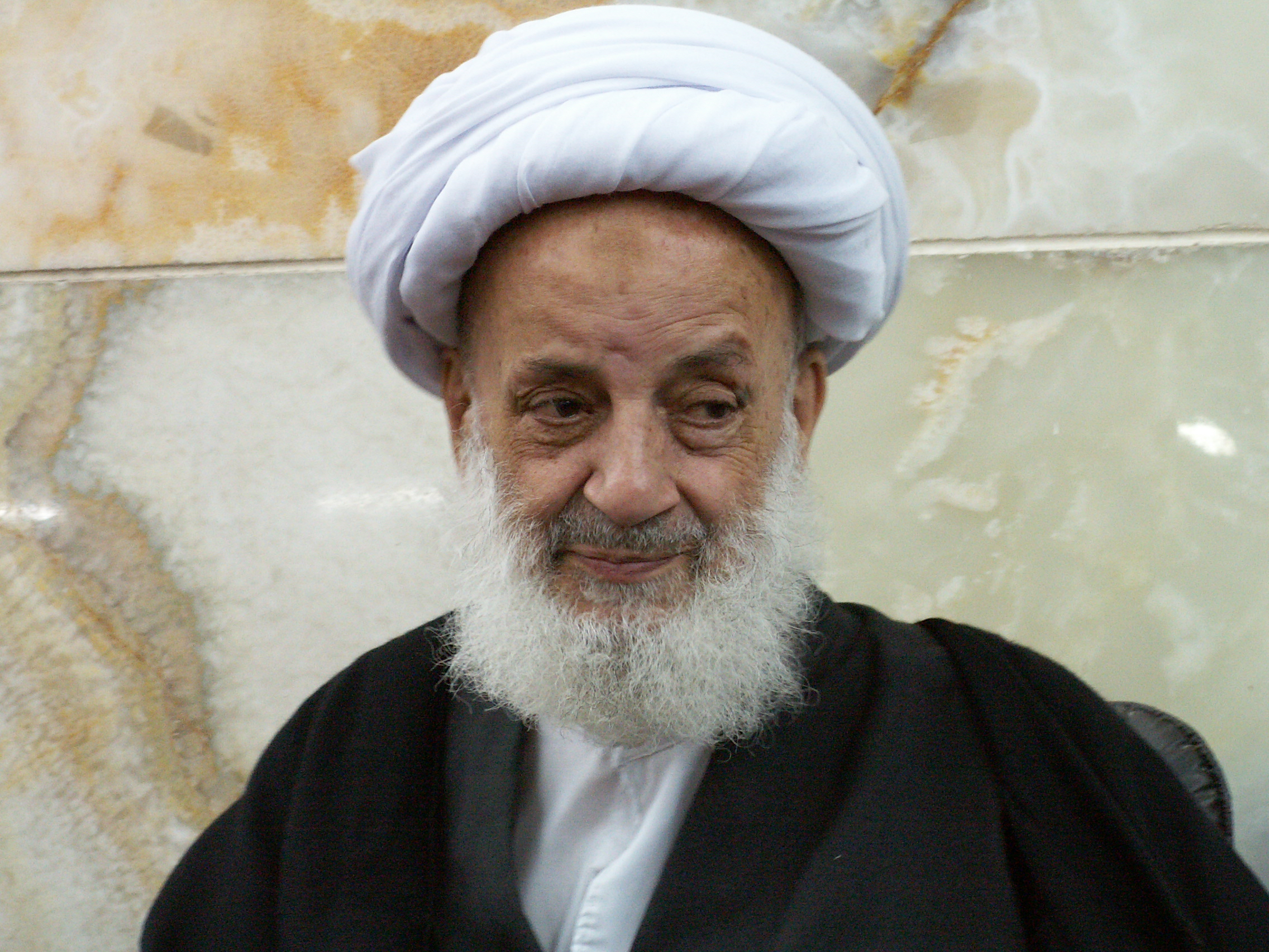 Ayatollah Mojtahedi Tehrani